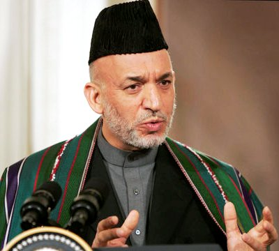 President Hamid Karzai, of the Islamic Republic of Afghanistan, responds to a reporter's question Tuesday, Sept. 26, 2006, during a joint availability with President George W. Bush in the East Room of the White House. Said President Karzai, "I think it is very important that we have more dedication and more intense work with sincerity, all of us, to get rid of the problems we have around the world." White House photo by Paul Morse full story